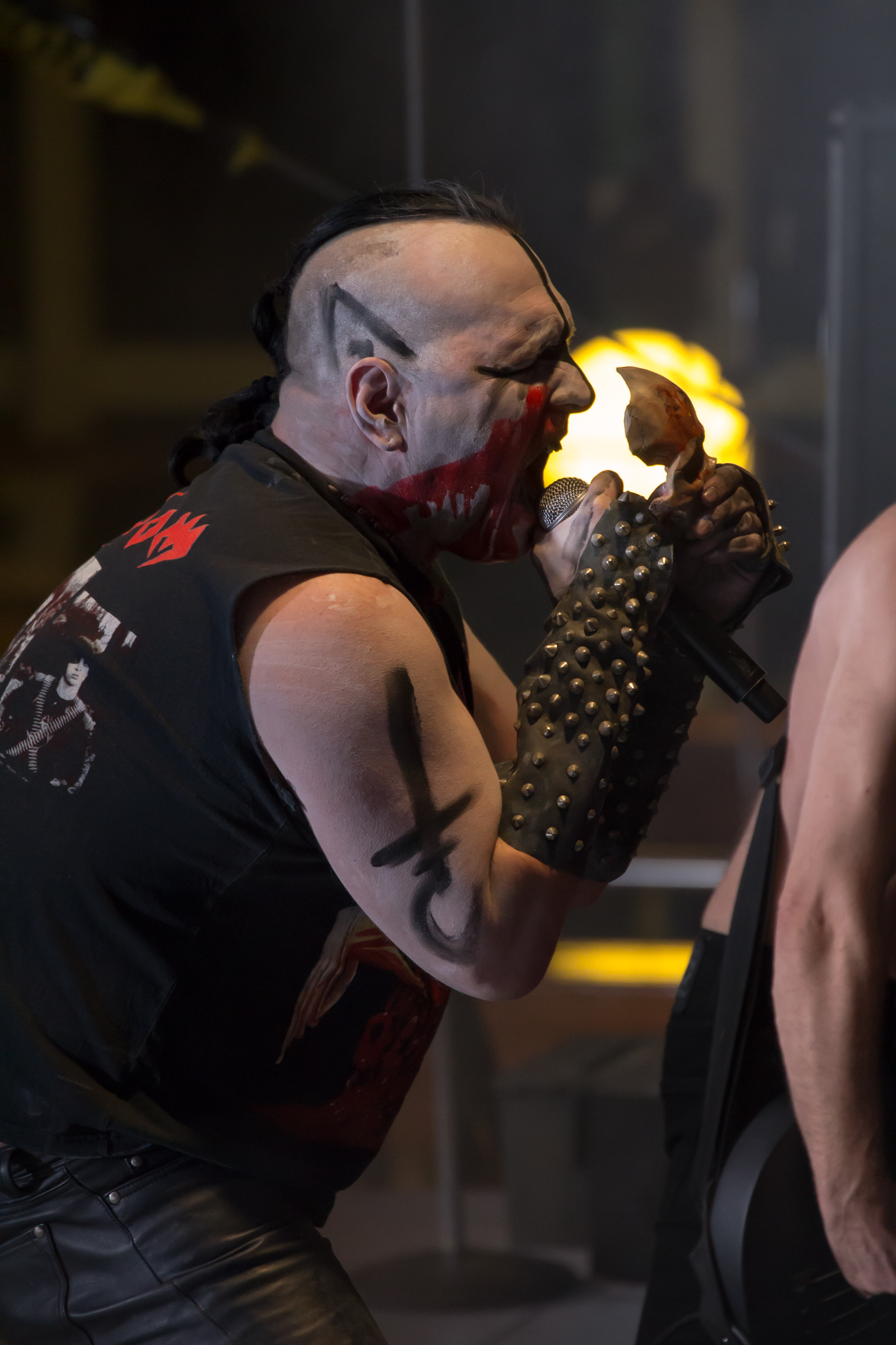 Mayhem playing on the "barge to Hell" metal cruise in 2012